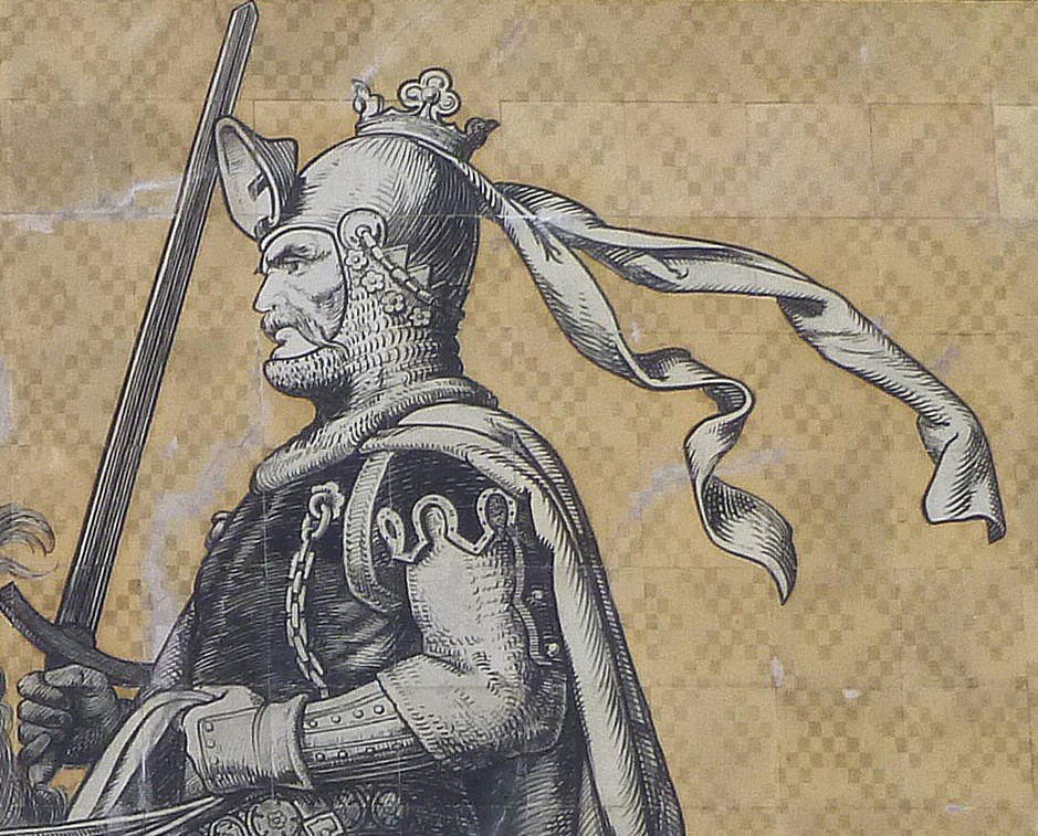 Frederick I, Margrave of Meissen (1307–1324), Frederick II, Margrave of Meissen (1324–1349), and Frederick III, Landgrave of Thuringia (1349–1381); Fürstenzug, Dresden, Germany